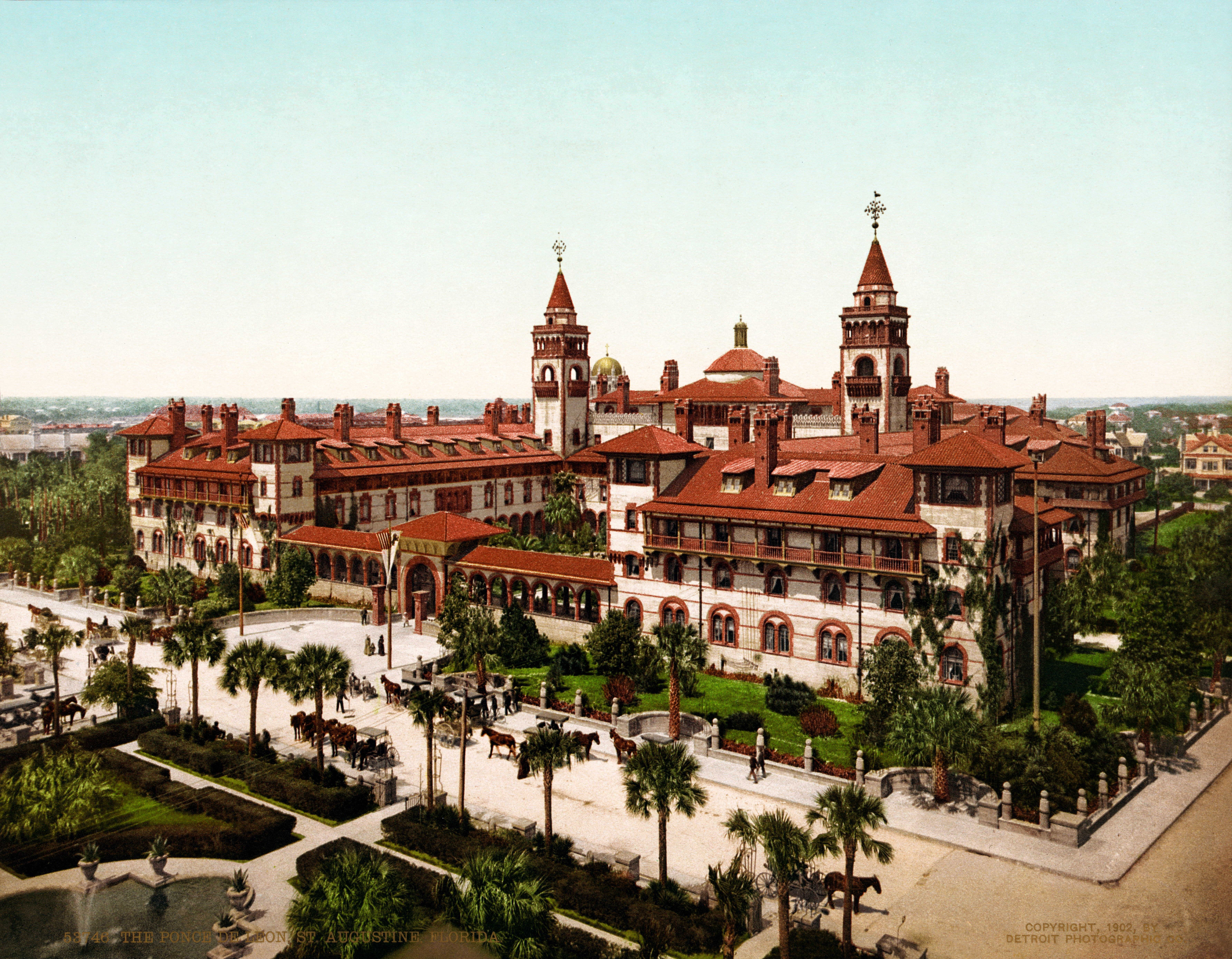 53764. The Ponce de Leon, St. Augustine, Florida.